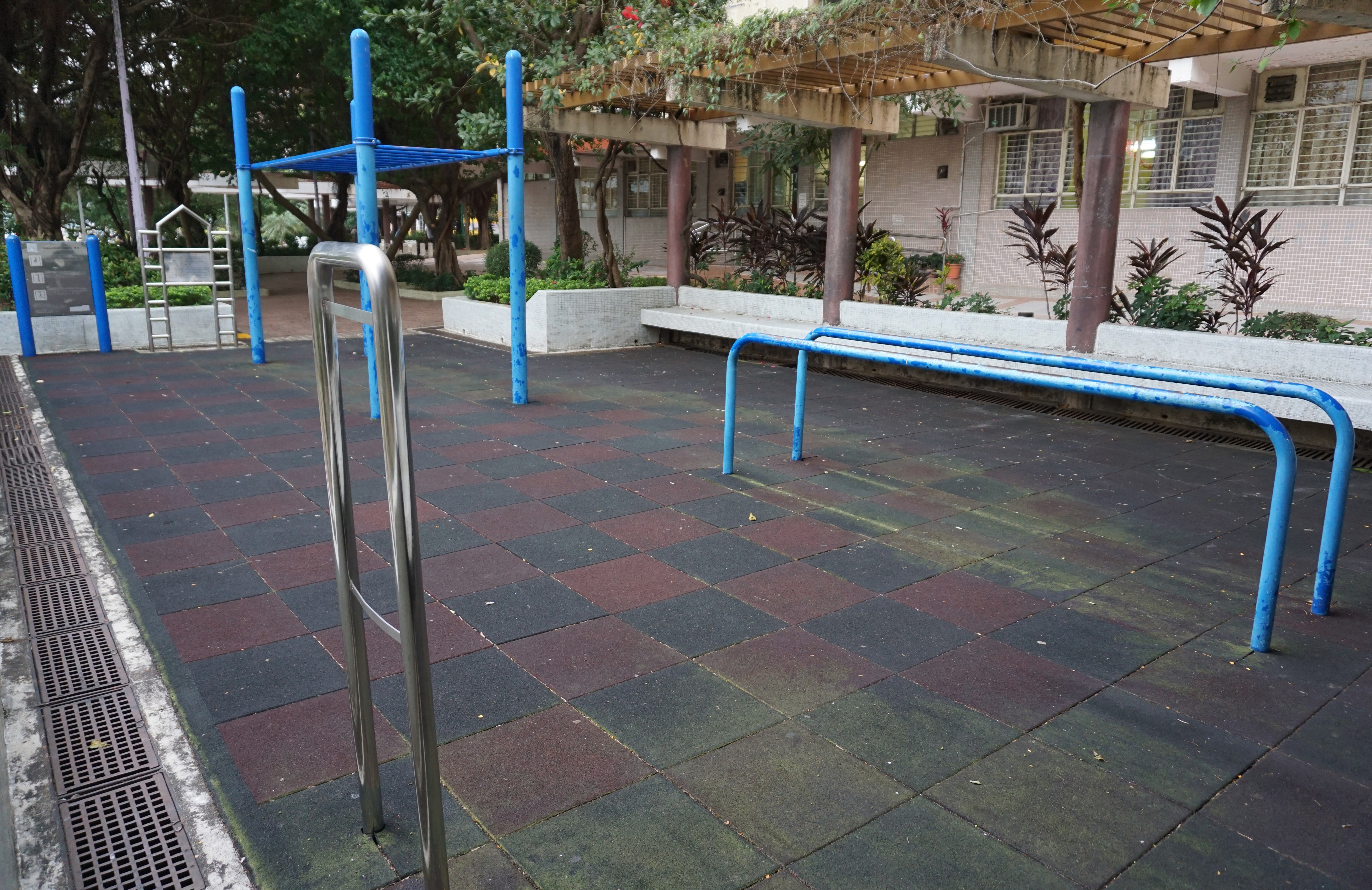 Cheung Fat Estate in Tsing Yi, Hong Kong.